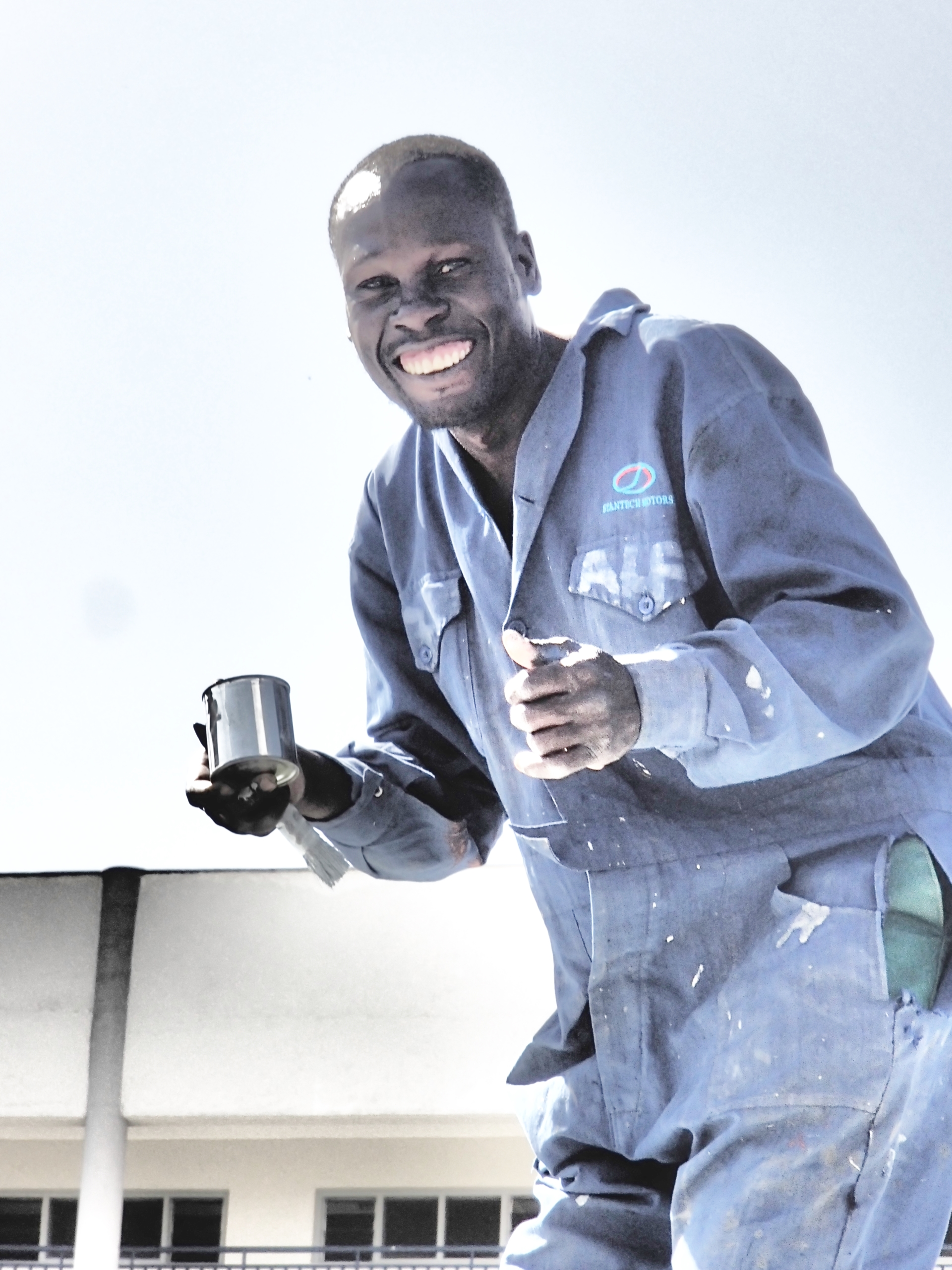 This is a picture i took of a painter who was painting my school bus (he was standing on top of it) . This person shows not only hardwork but also dedication, passion and happiness towards that work is important This is an image of "African people at work" from Kenya